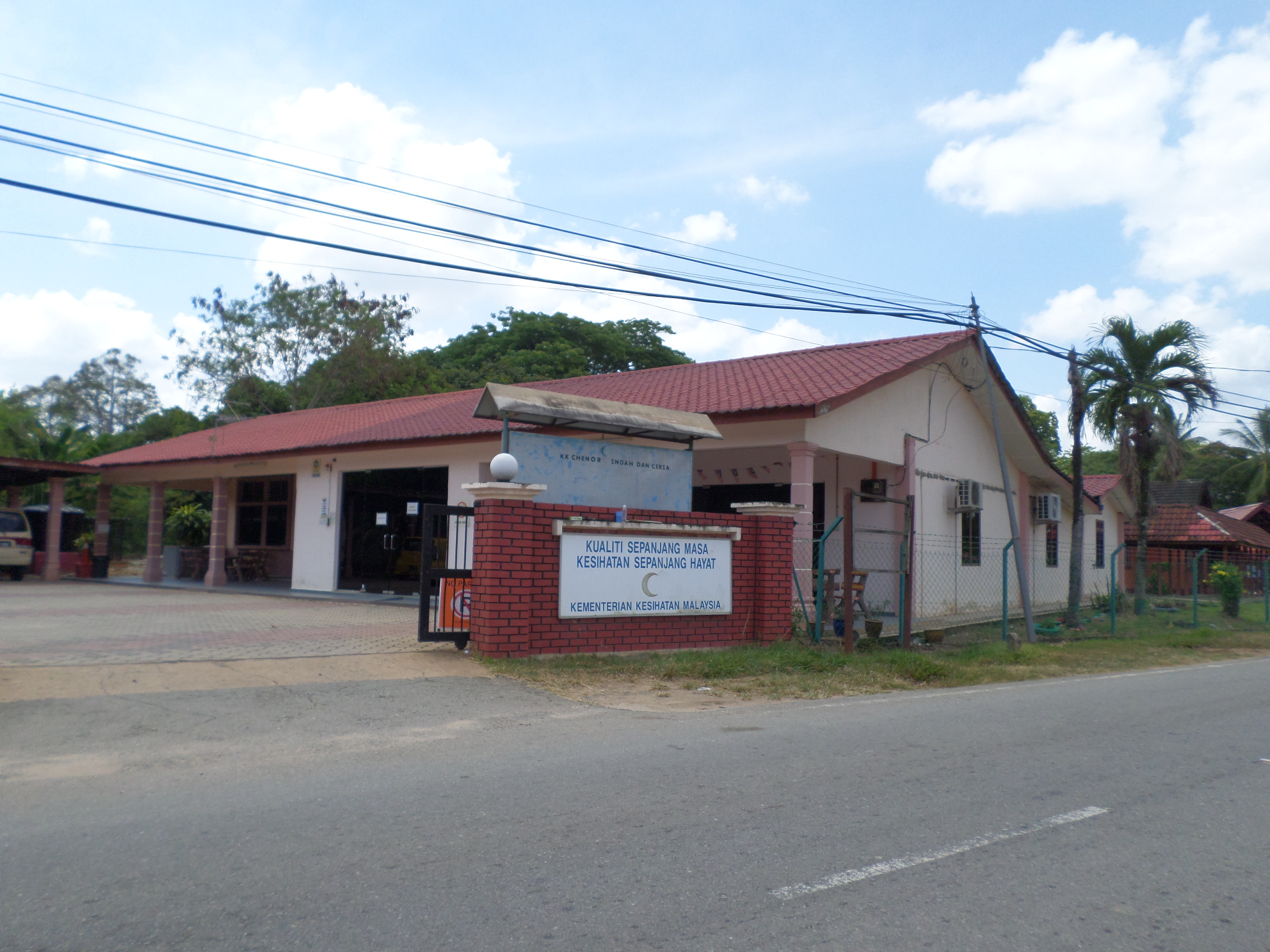 Chenor Health Clinic, Chenor, Maran, Pahang, Malaysia